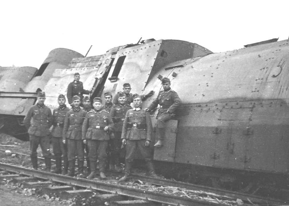 Wehrmacht soldiers pose in front of the Polish armored train No. 13, originally named "General Sosnkowski", 22 September 1939. The same day, Adolf Hitler was brought to the train. On 10. September had a 250-kg bomb of a Ju 87 hit the armored train. The armored train was disabled after a fire, then abandoned by the Polish soldiers.